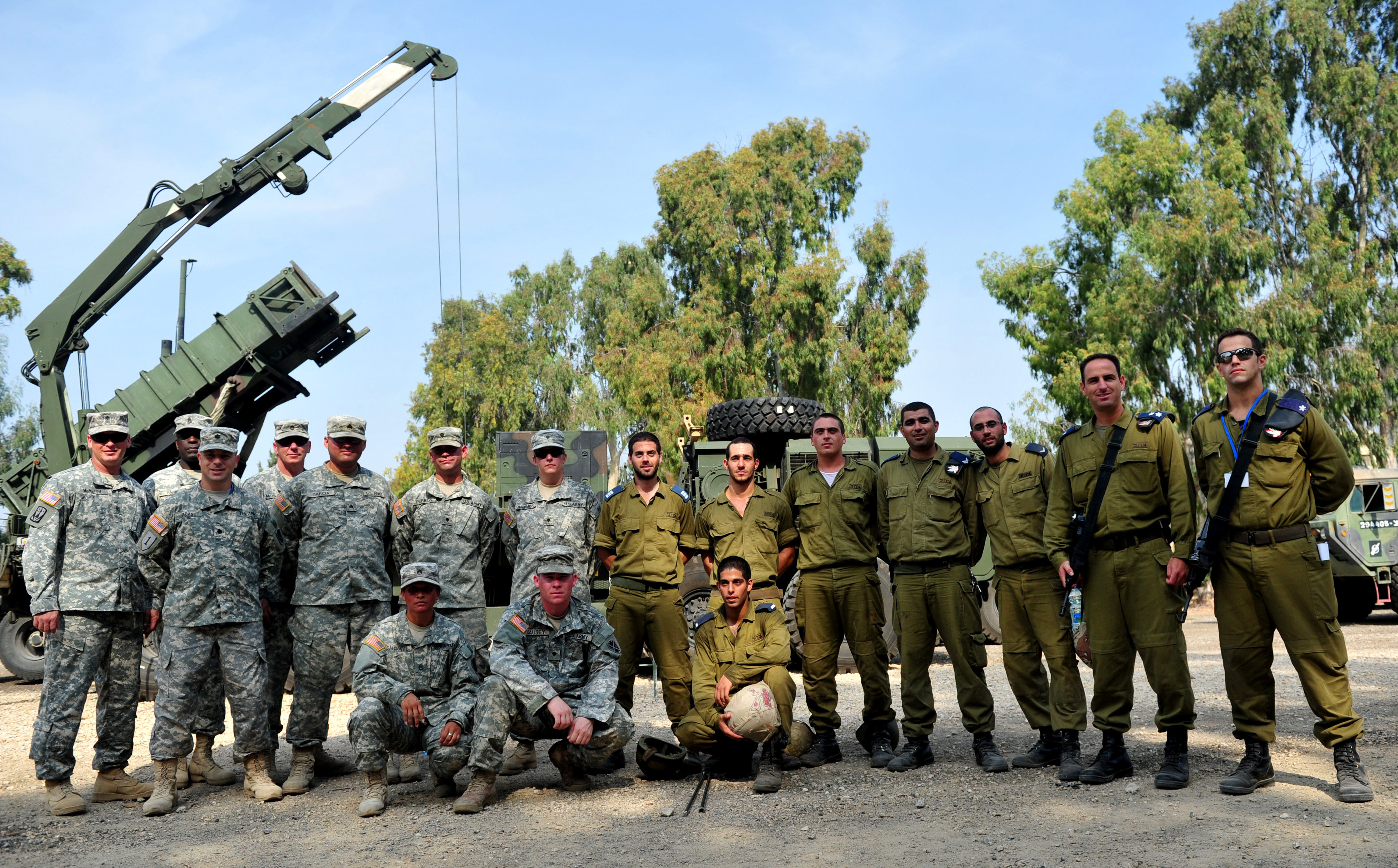 U.S. Soldiers with Bravo Battery, 5th Battalion, 7th Air Defense Artillery Regiment and Israeli soldiers pose for a photo during Austere Challenge 2012 in Hazor, Israel, Nov. 1, 2012. Austere Challenge 2012 is a three-week bilateral exercise designed to increase air defense interoperability between the United States and Israel.